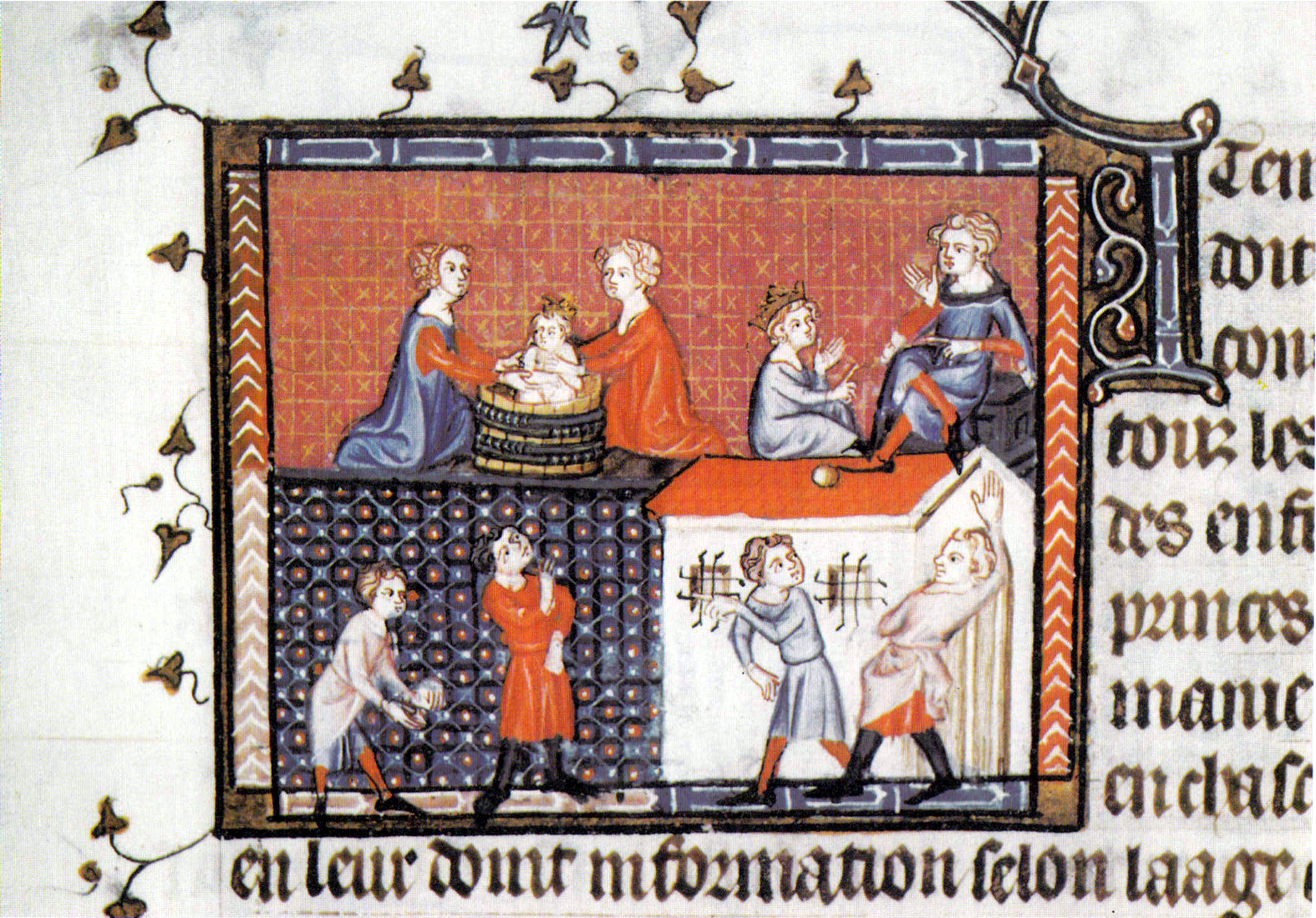 Depiction of education of royal offspring at the court of Charles V of France. At the bottom Tennis lessons are shown.